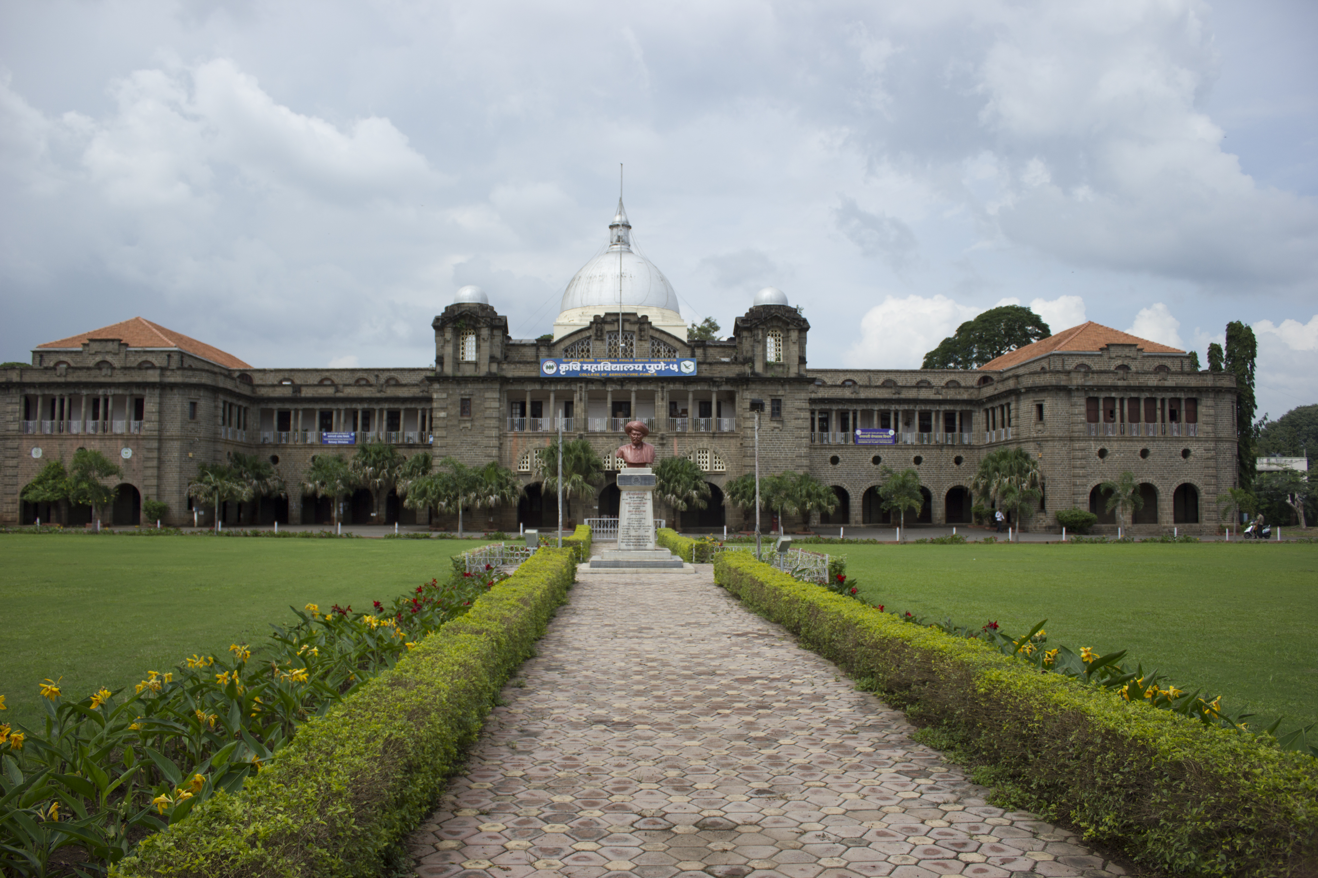 College of Agriculture, Shivajinagar, Pune 05